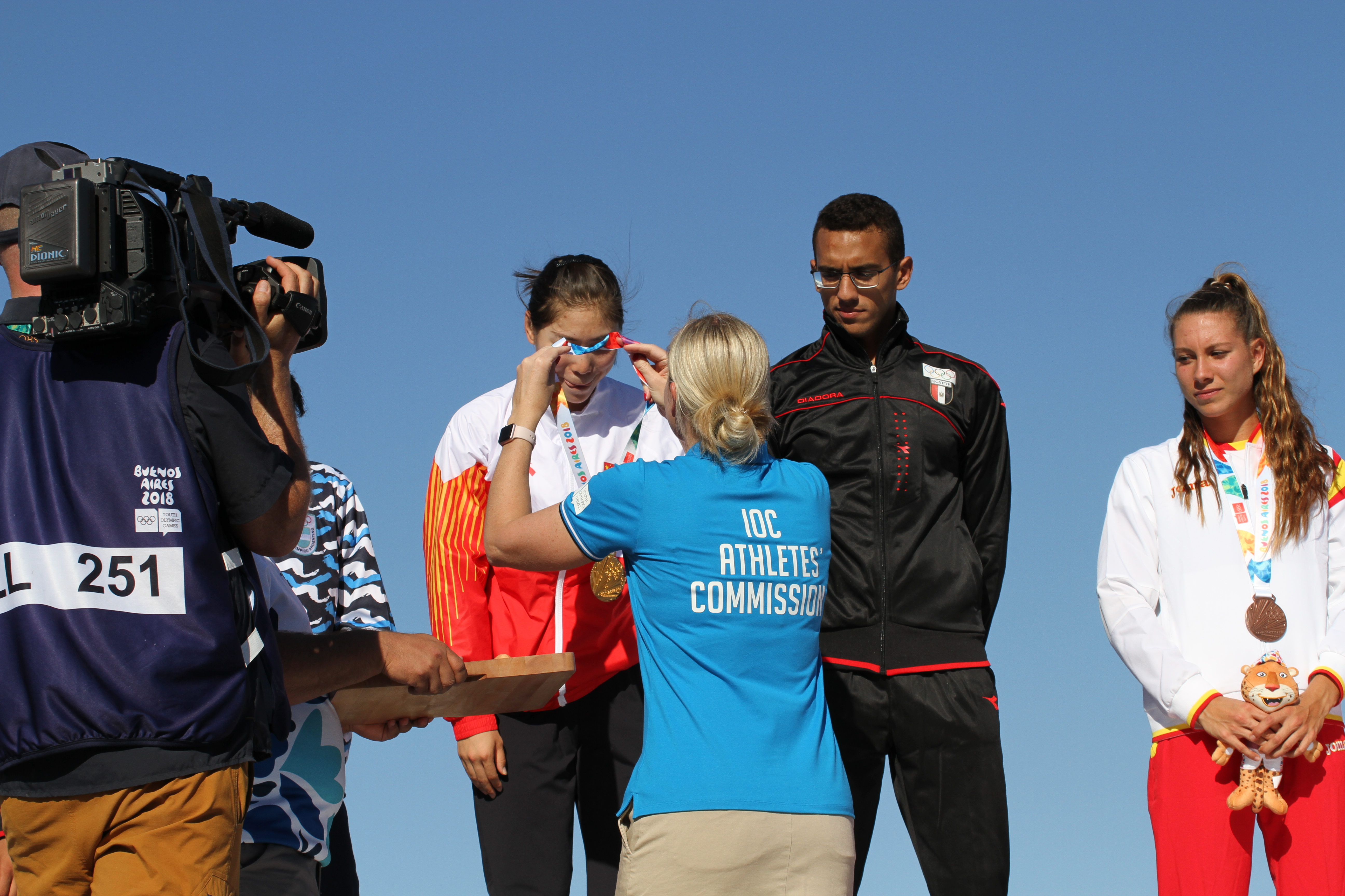 Victory ceremony of the modern pentathlon mixed relay team at the 2018 Summer Youth Olympics.